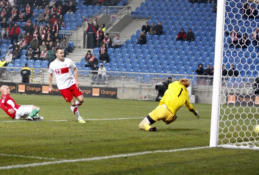 Paweł Brożek